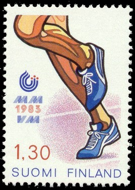 Postage stamp celebrating the 1983 World Championships in athletics in Helsinki